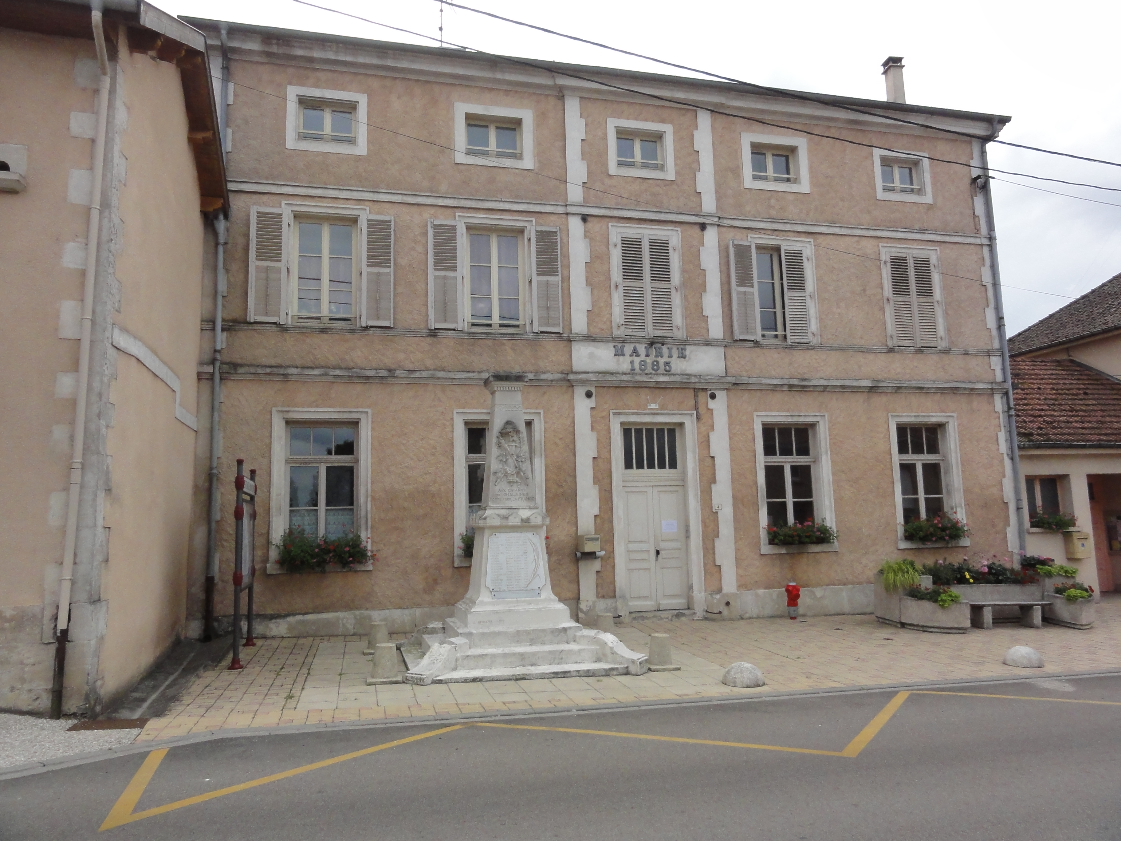 Chalaines (Meuse) mairie